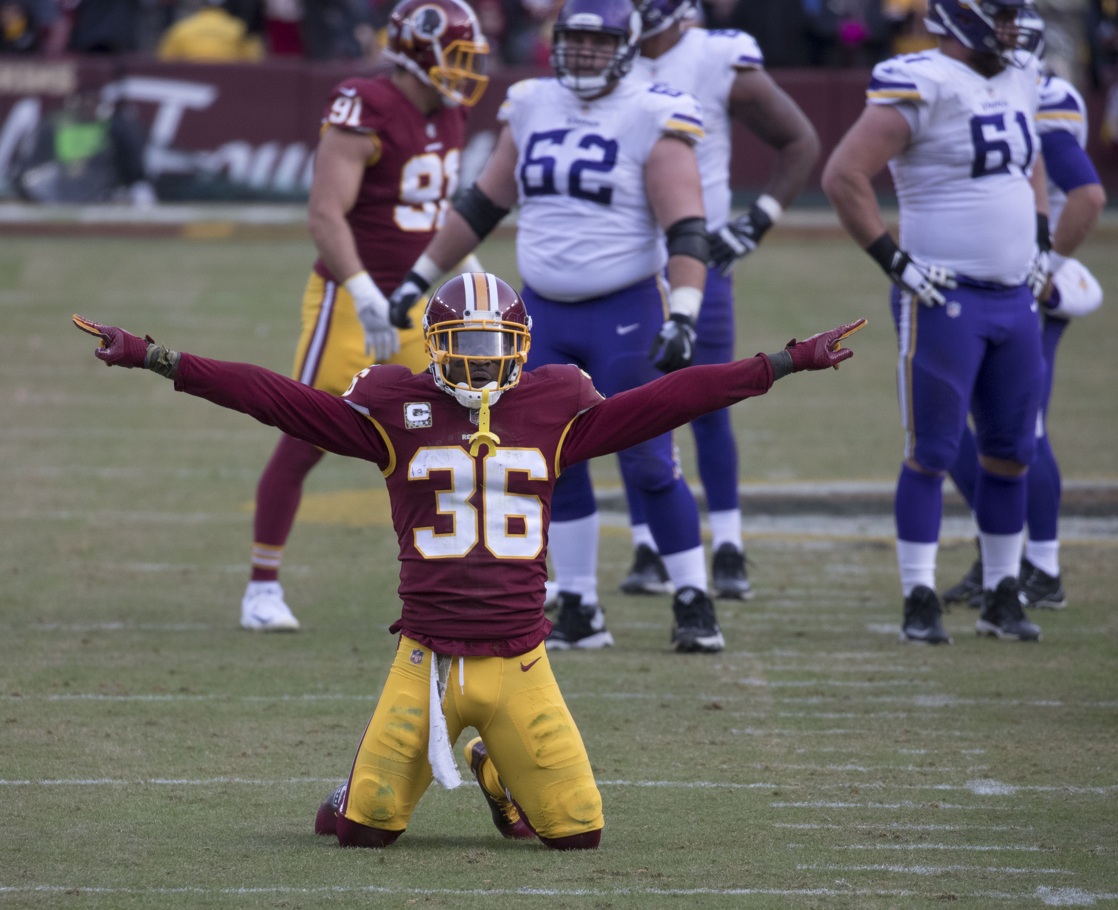 Washington Redskins safety, D.J. Swearinger, celebrating after getting an interception against the Minnesota Vikings on November 12, 2017.